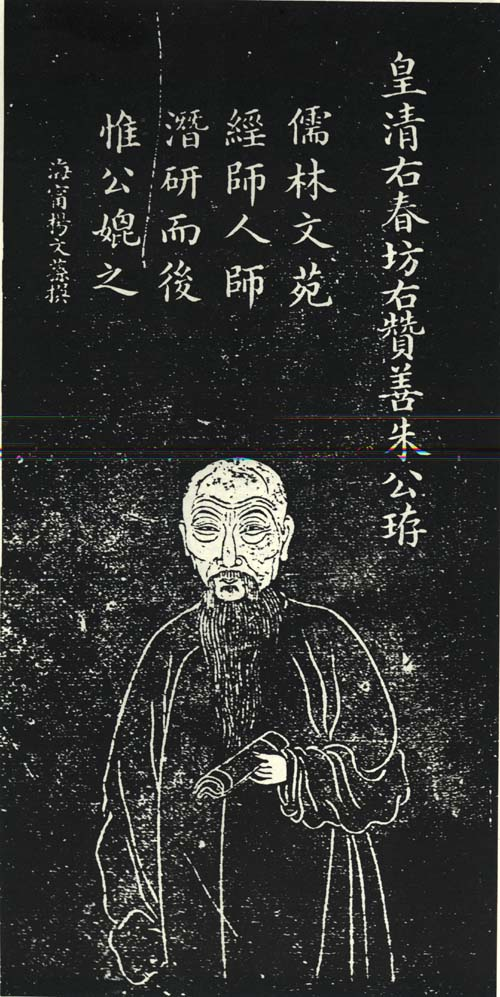 Zhu Jian, scholar of the Qing Dynasty.